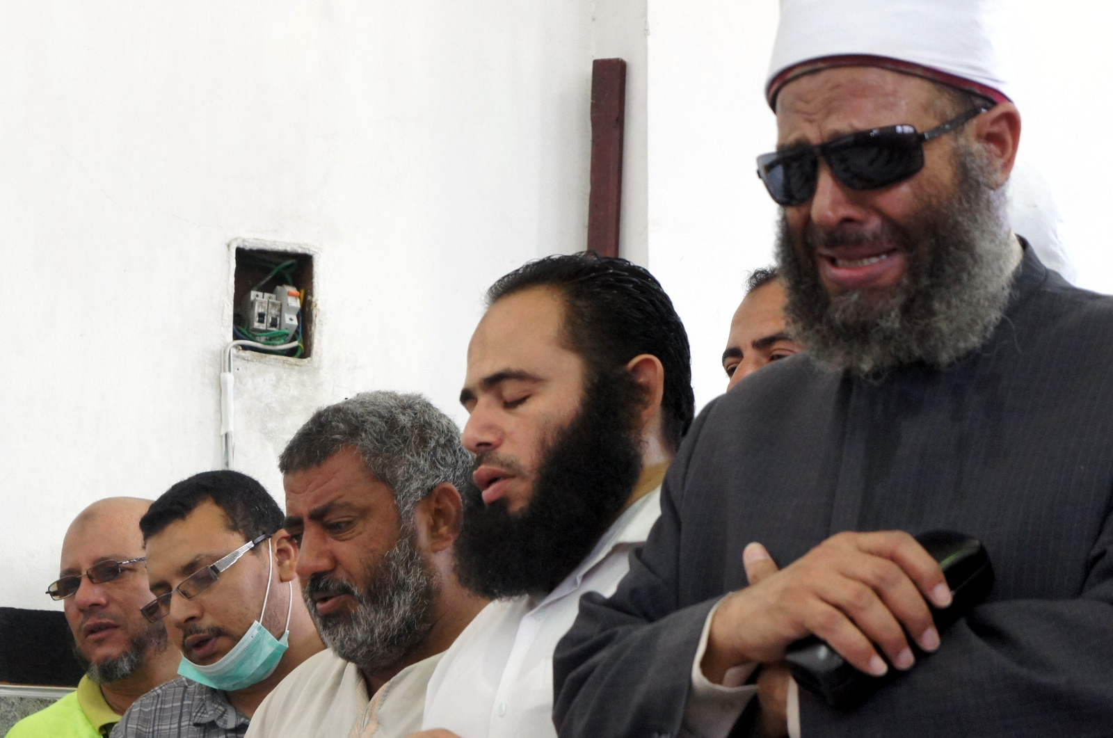 Original description: "A sheikh leads mourners in prayers at a makeshift morgue at Rabia el-Adawiya mosque in Cairo, July 27, 2013, (Elizabeth Arrott/VOA)."